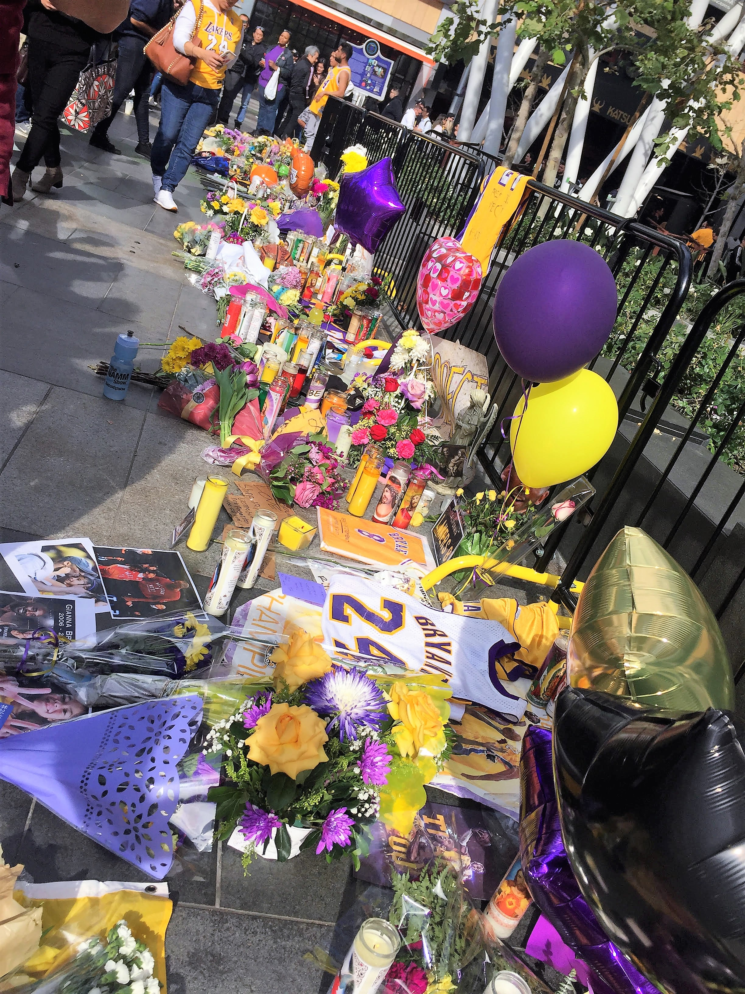 A make-shift memorial outside of the Staples Center a day after had passed away in a helicopter crash.